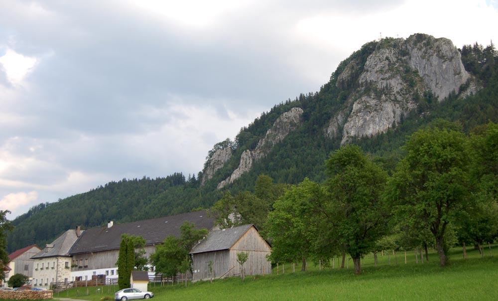 Haselsteinwand, a subordinate summit of Prochenberg in Ybbsitz in Lower Austria.